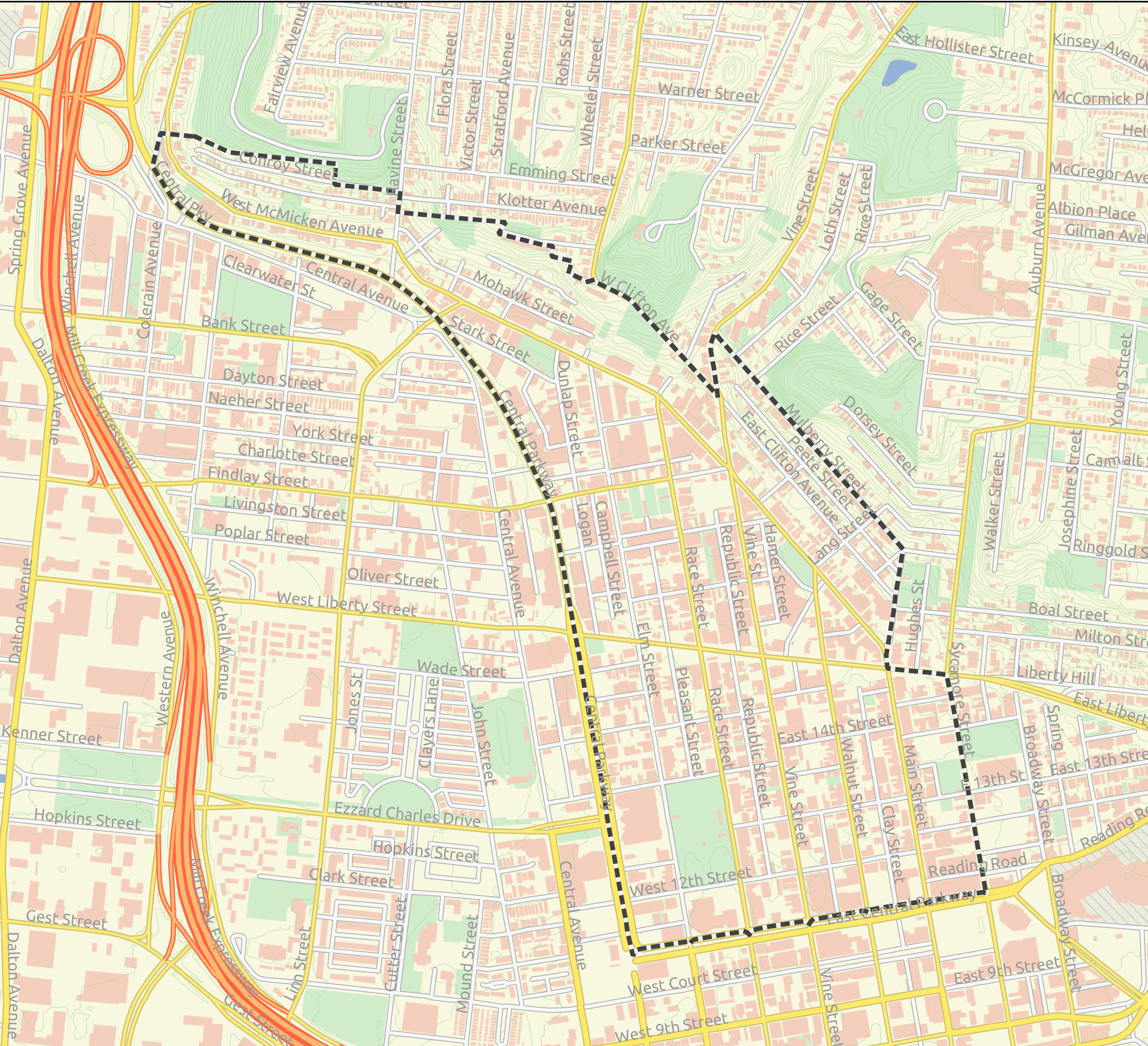 A contextual map of Over-the-Rhine, Cincinnati. This map may be incomplete, and may contain errors. Don't rely solely on it for navigation.